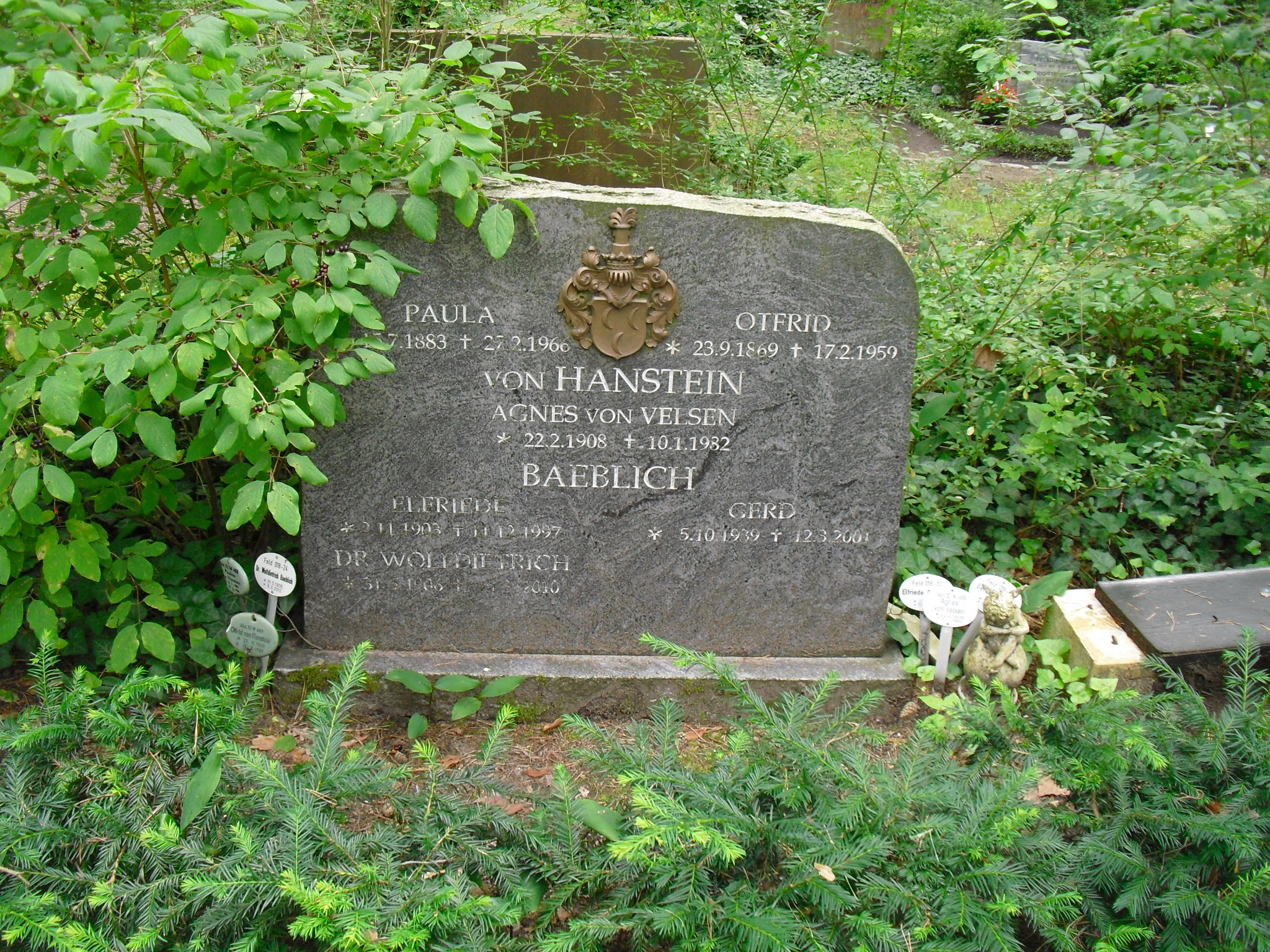 Grave of German science fiction writer Otfrid von Hanstein and his wife Paula von Hanstein in Waldfriedhof Zehlendorf in Berlin